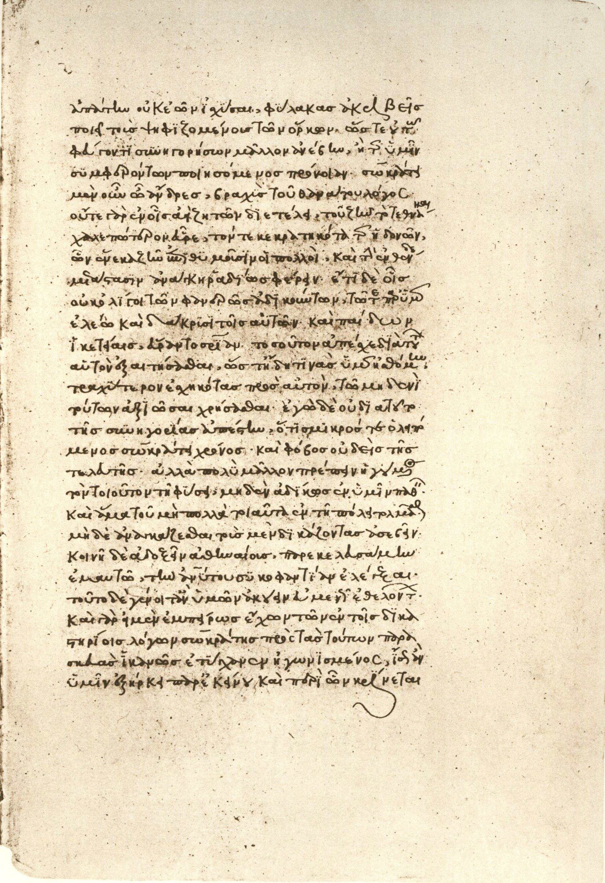 Libanius, Speeches, in ms. Biblioteca Apostolica Vaticana, Vaticanus Urbinas graecus 126, fol. 124r.